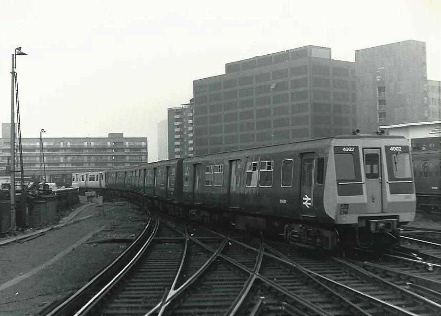 BR prototype "4-PEP" Class "445" Standard Mk.II 750 V dc 3rd rail inner suburban 4-car emu No.4002 in BR Rail Blue livery with all yellow front end (with No.4001) leaving Waterloo on a Hampton Court service, 07/75. Note driving car of "2-PEP" Class 446 in formation towards front of train. Scanned photograph taken with a Kowa SET.